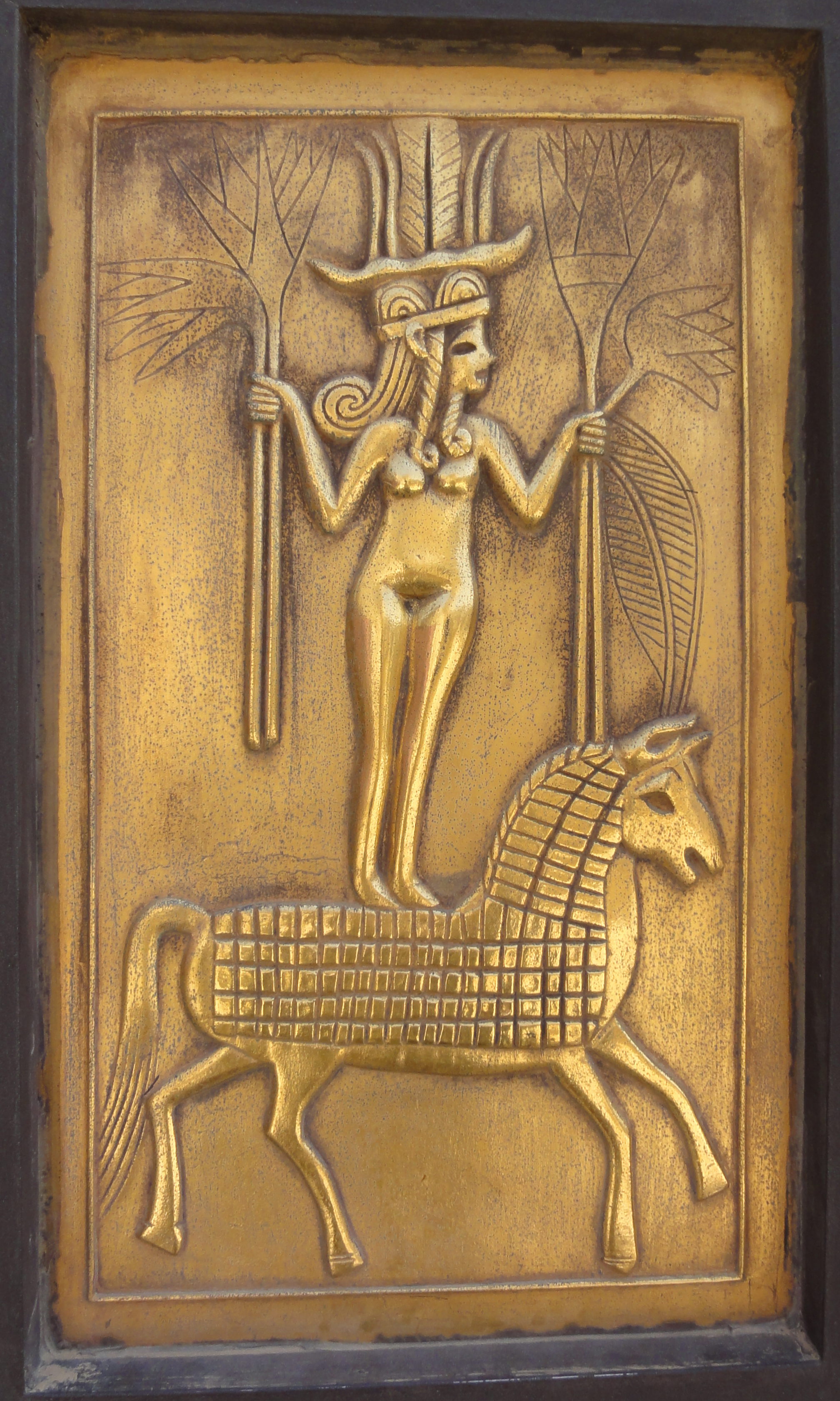 Tower of David exhibition: Ancient Egyptian Goddess Astarte